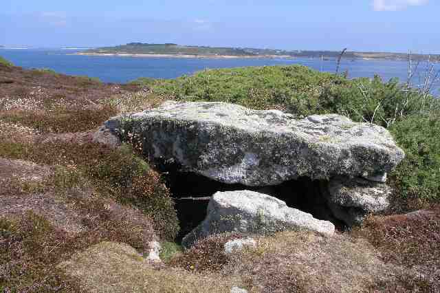 Burial Chamber on Kittern Hill